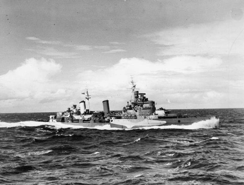 HMS Belfast during the Second World War HMS BELFAST underway off Scapa Flow during a review of the Home Fleet by HM King George VI.